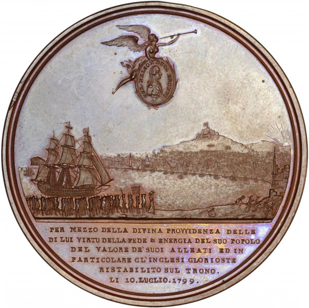 Restoration of Ferdinand IV - Lord Nelson Created Duke of Bronte, 1799, Copper Medal by Conrad Heinrich Küchler, (armoured bust of Ferdinand right, FERDIN. IV D : G. SICILIAR. ET HIE. REX.,) reverse Nelson's flagship HMS Foudroyant enters the Bay of Naples, with the Frigate Sirena behind, Fame flies above carrying a medal of Lord Nelson, inscribed HOR. NELSON DUCA BRONTI, on the shoreline, having abandoned their flag, bowed rebels scurry away from advancing solders led by a priest, PER MEZZO DELLA DIVINA PROVVIDENZA DELLE DI LUI VIRTU DELLA FEDE & ENERGIA DEL SUO POPOLO DEL VALORE DE' SUOI ALLEATI ED IN PARTICOLARE GL'INGLESI GLORIOSTE RISTABILITO SUL TRONO. LI 10. IUGLIO. 1799, 49mm, with the original Boulton coppered-tin shells as issued (BHM 479; Eimer 908; Pollard 18; Ricciardi 59). Exceptional, virtually as struck. Provenance: Ex Suckling Collection (Nelson's mother was Catherine Suckling) "A Comprehensive Study Collection of Medallions Illustrating the Life and Times of Horatio, Viscount Nelson, K.B., Duke of Bronte, Vice-Admiral of the White (1758-1805)", Morton & Eden, 3 July 2008, lot 230.